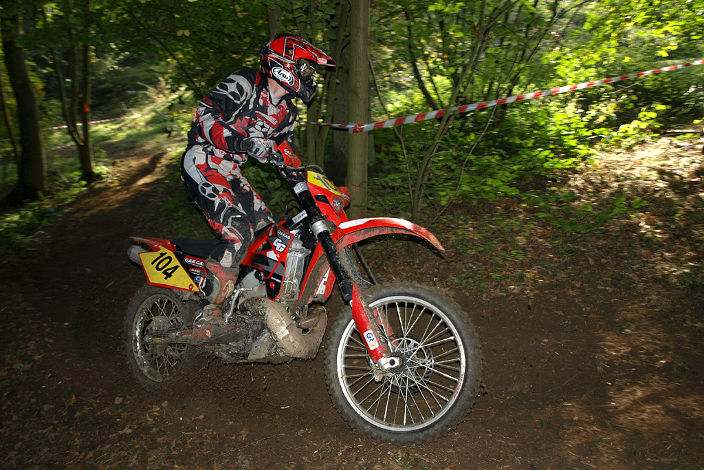 TBEC Enduro - Friars Well, Melton Mowbray - 12th Oct 2008